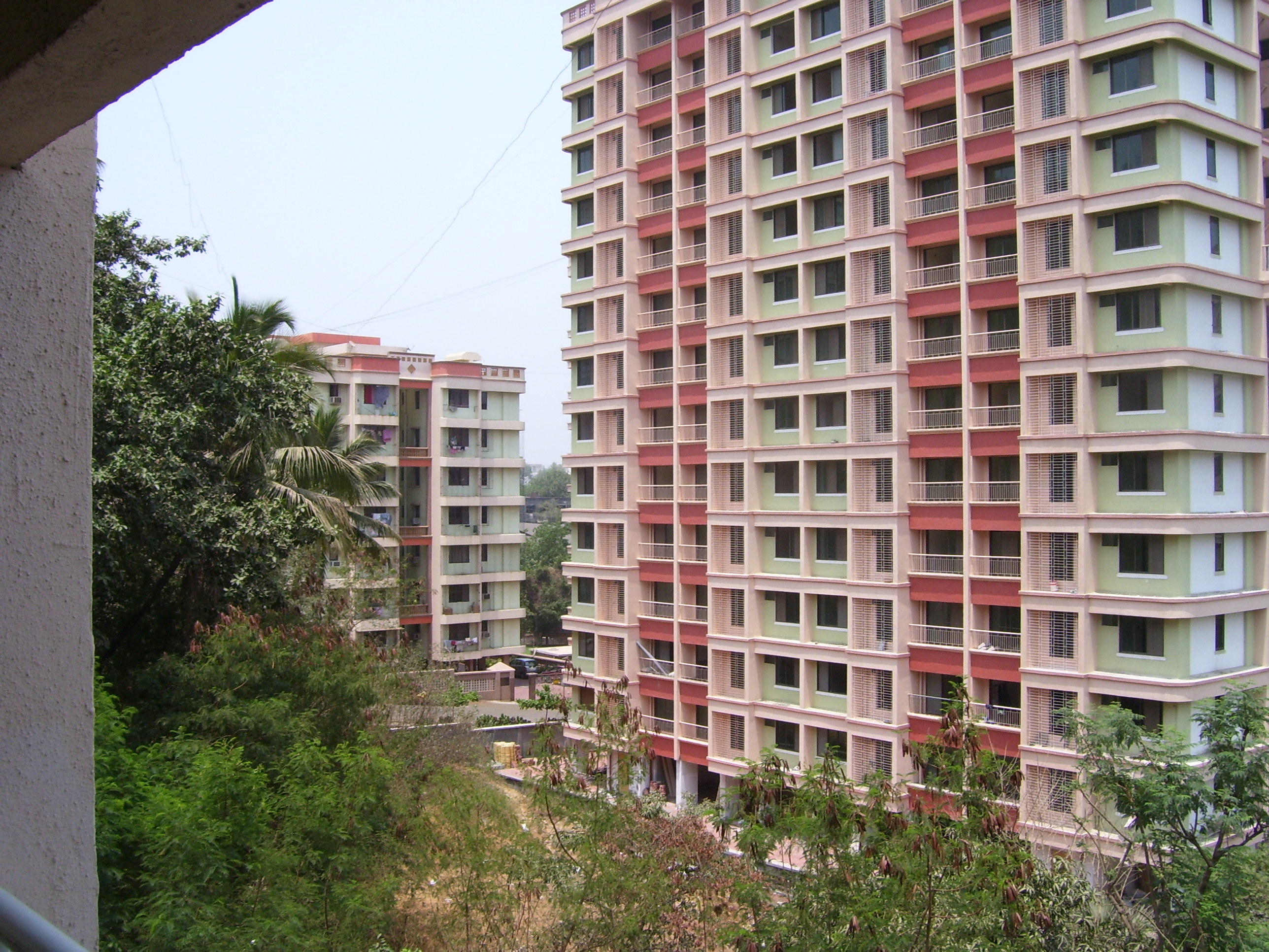 View of Gulmohar building at gawand baug in Thane.